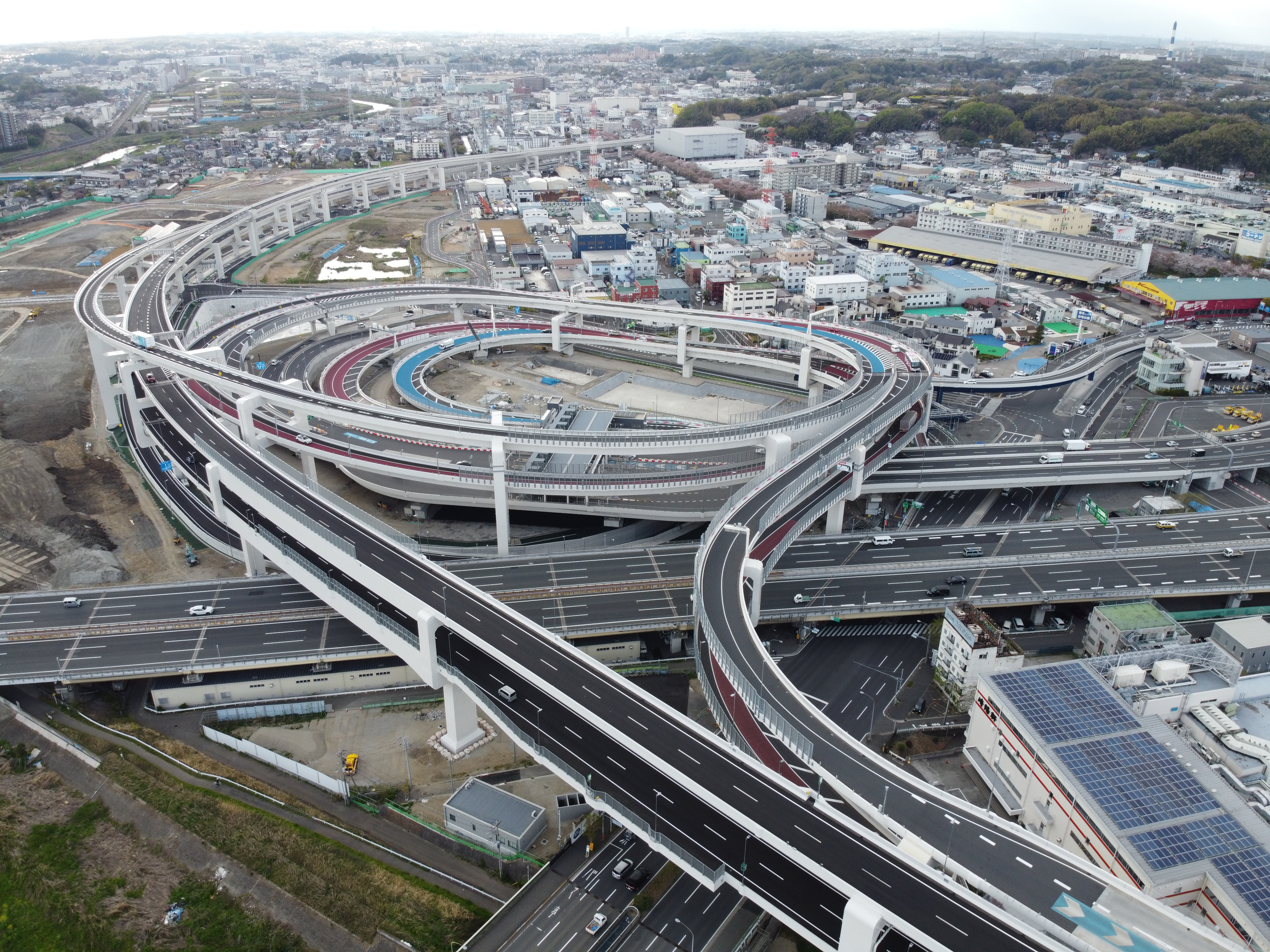 Aerial view of Kouhoku Interchange from south